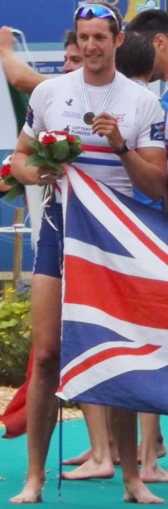 Sight of the British men team (Men's Four), who have won a bronze medal, during the 2015 World Rowing Championships taking place on the lac d'Aiguebelette lake, in Savoie, France.